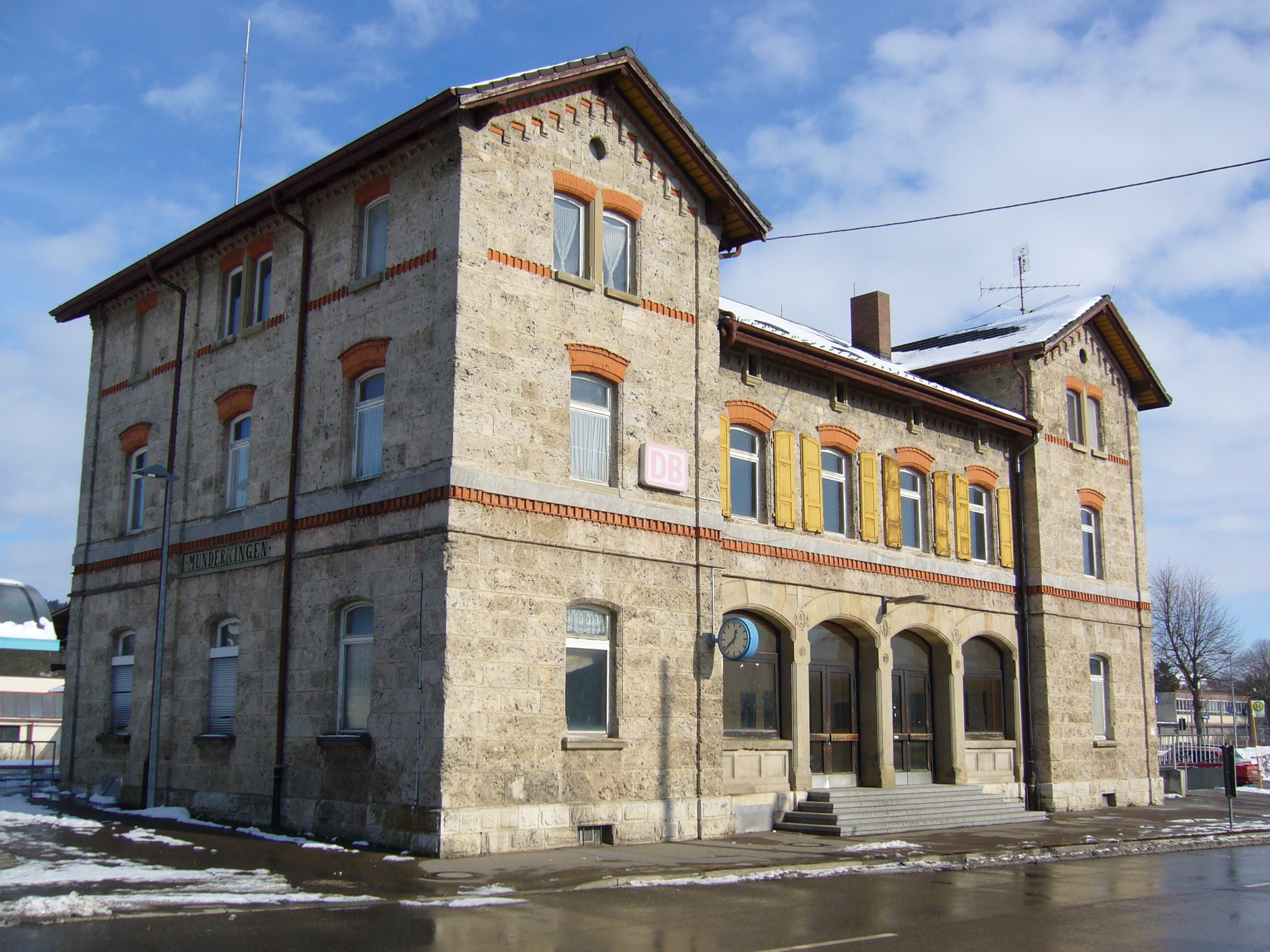 Station building at Munderkingen on the Danube Valley railway in Baden-Württemberg, Germany, built in 1870 for the Royal Württemberg State Railways.